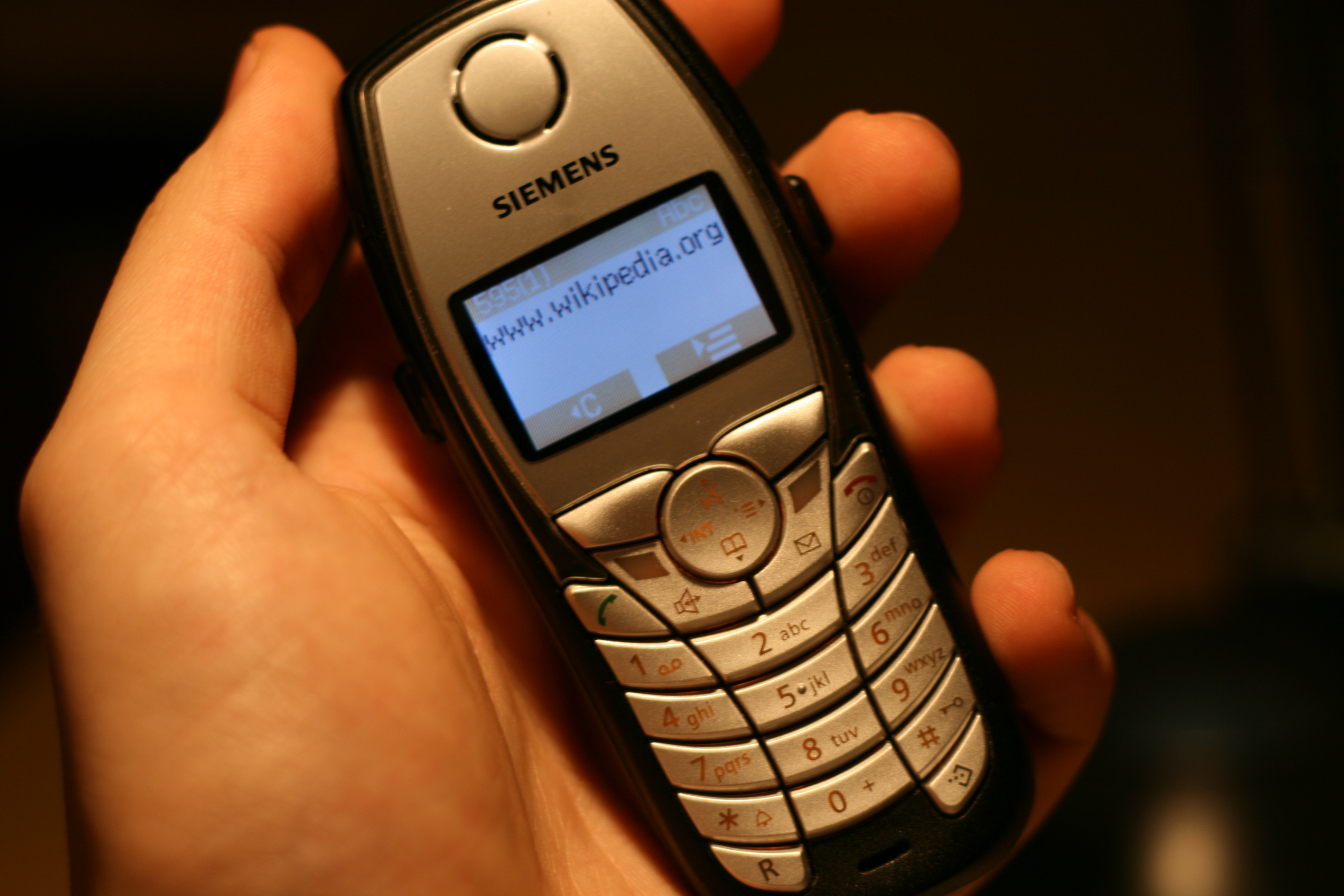 Modern wireless landline phone capable of sending and recieving text messages (SMS). (Siemens Gigaset SL1)